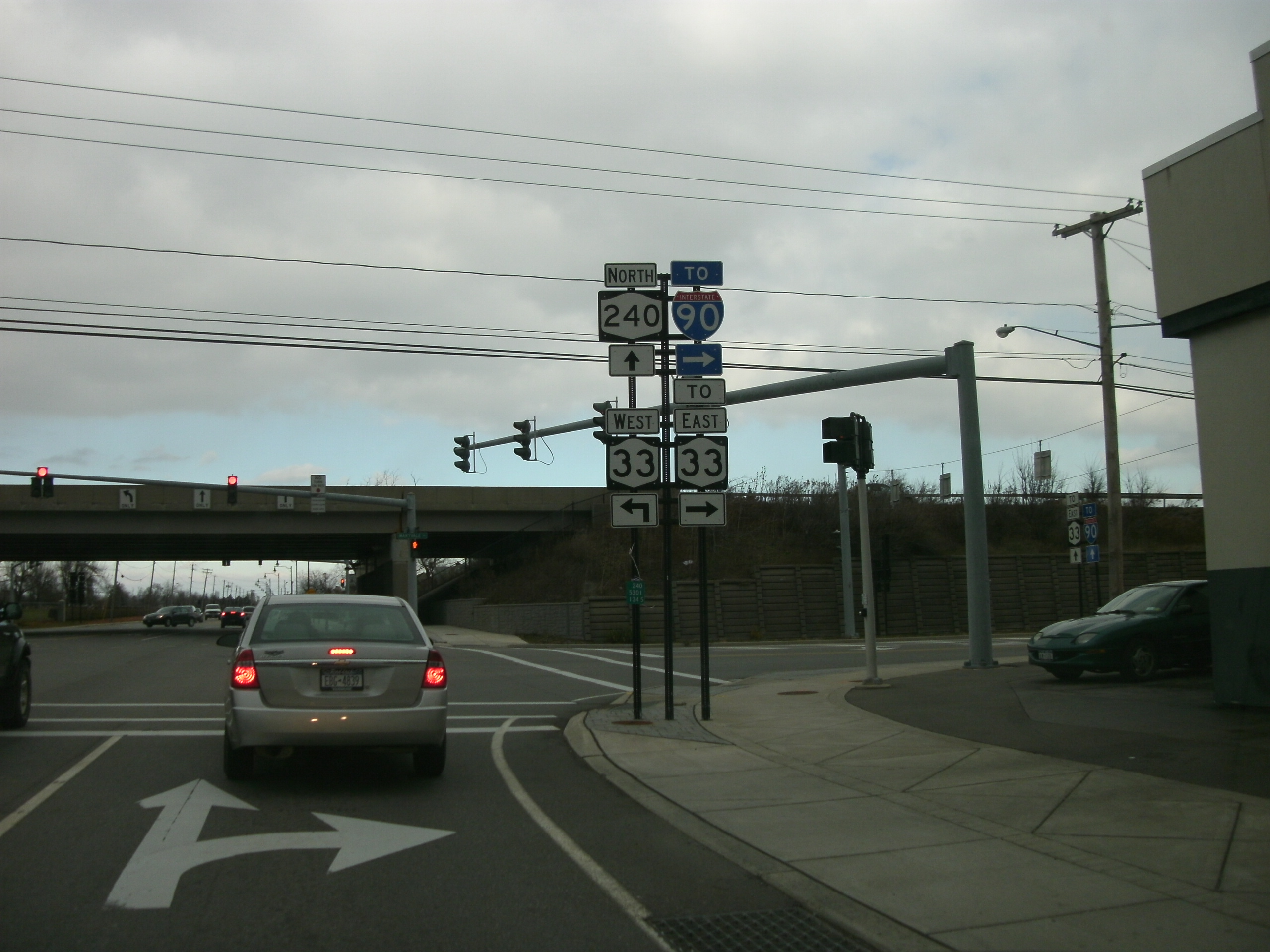 New York State Route 240 northbound at the interchange with New YorkState Route 33 (Kensington Expressway) in Cheektowaga.